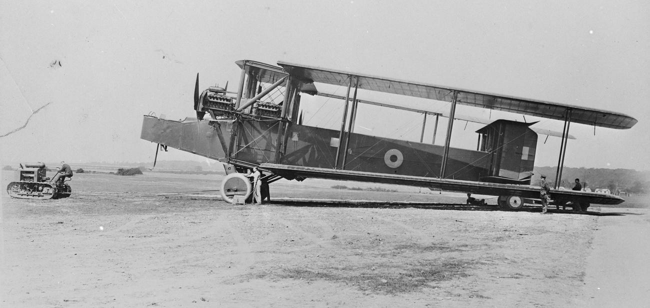 Handley Page V/1500 illustrating its folding wing capability